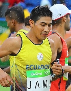 Athletics at the 2016 Summer Olympics – Men's marathon